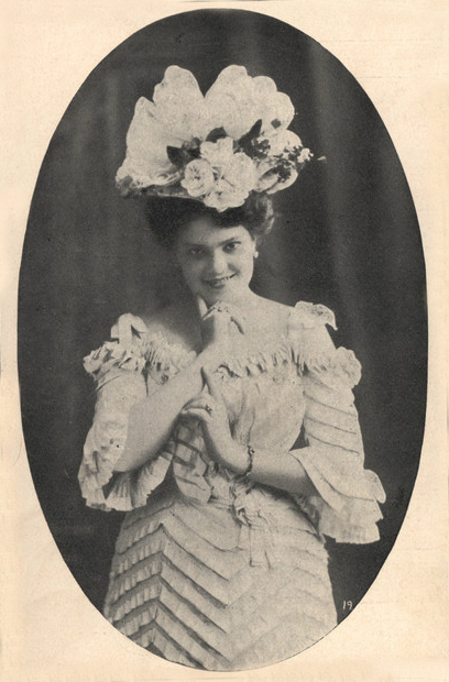 Photograph of Dora Dean. Taken from an except on the cover of Don't You Think You'd Like to Fondle Me by Hugh Cannon, c.1900. From Brown University Library